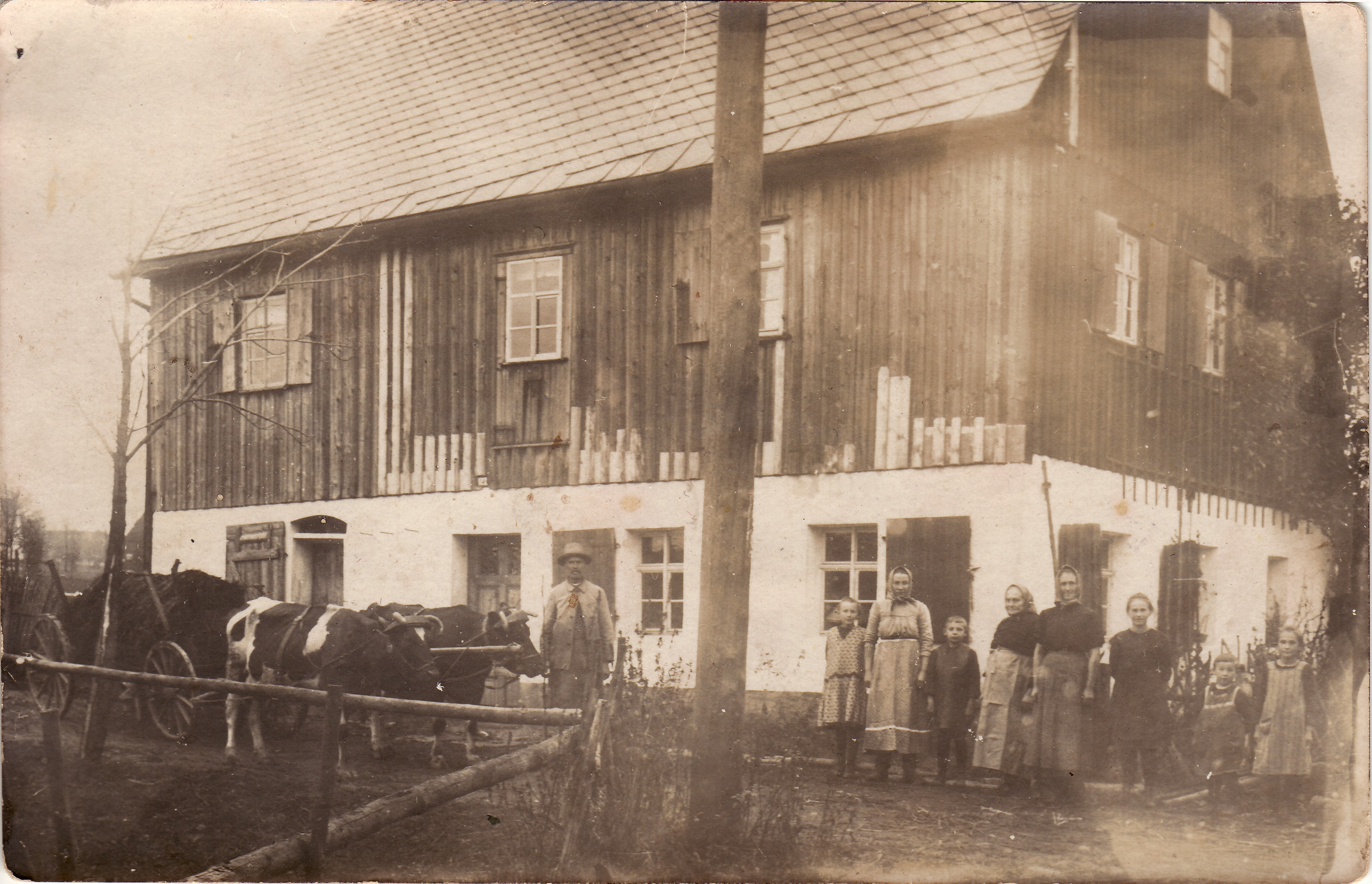 Ore Mountains: Lippersdorf, district of Lengefeld, a farmer's family with harnessed cows